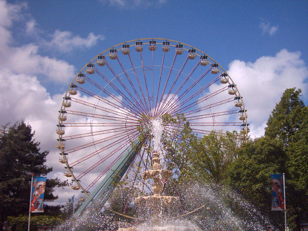 La Frande Roue in Walibi Holland (The Netherlands)